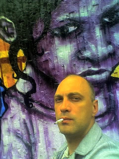 Mischa Vetere 2009.